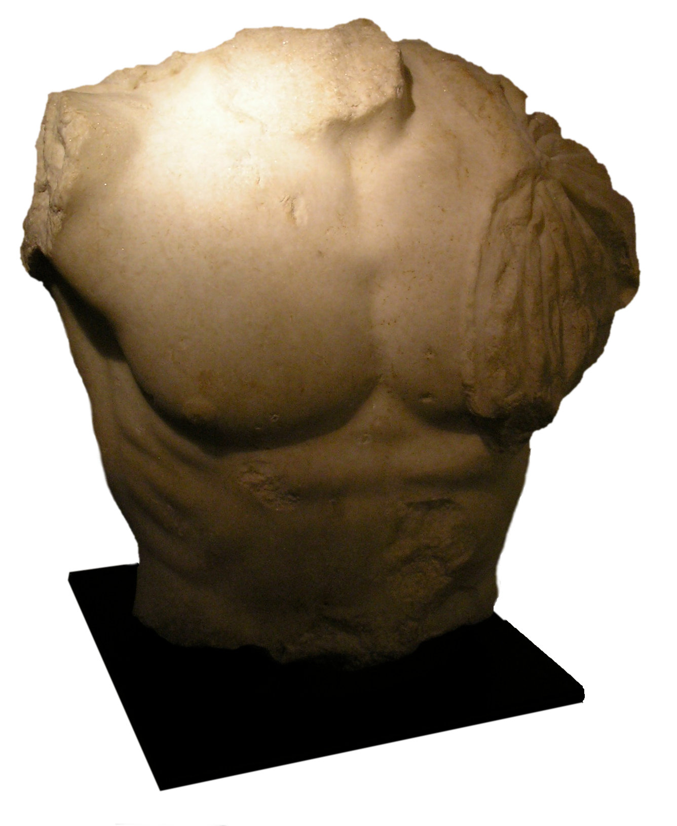 Torso of a statue, 2nd/3rd century A.D., marble. The torso is one of the few remaining marble stone monuments from Vindobona. The statue might actually be the emperor - who is like the supreme god Jupiter - depicted with naked upper body. The officeräs cloak on his shoulder identifies him as a vicorious commander. the figure was probably placed at the forum and served the imperial cult.